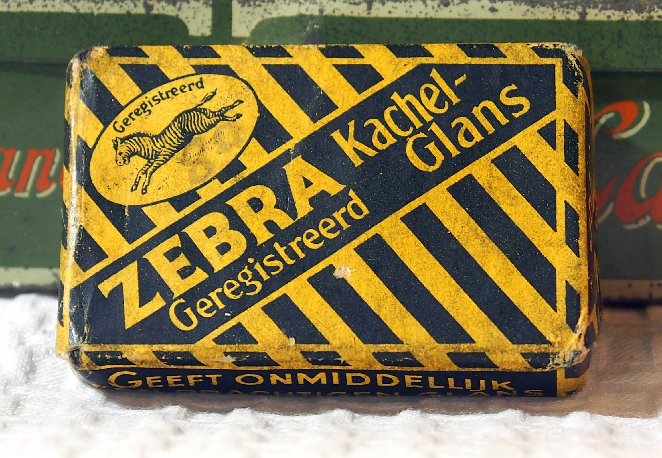 Old product that is not sold/produced anymore!